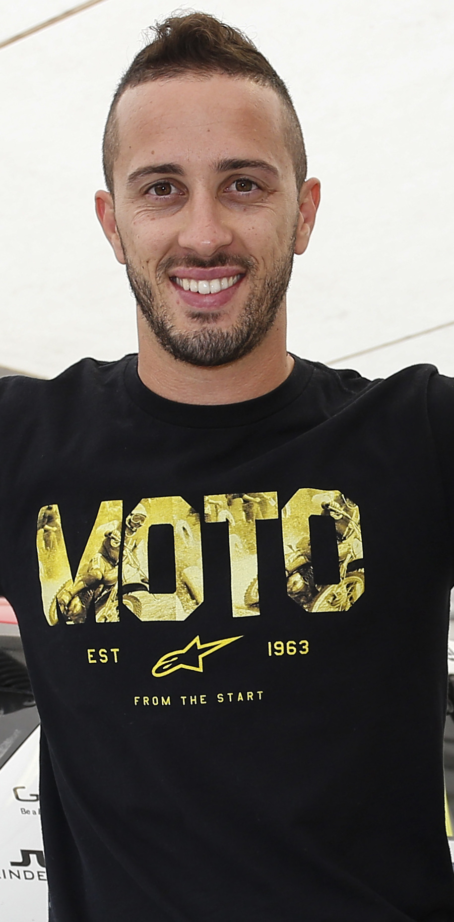 2016 FIA World RX Rallycross Championship / Round 09, Barcelona, Spain, September 17-18 2016 // Worldwide Copyright:Tony Welam/EKS/McKlein 2016 FIA World RX Rallycross Championship / Round 09, Barcelona, Spain, September 17-18 2016 // Worldwide Copyright:Tony Welam/EKS/McKlein